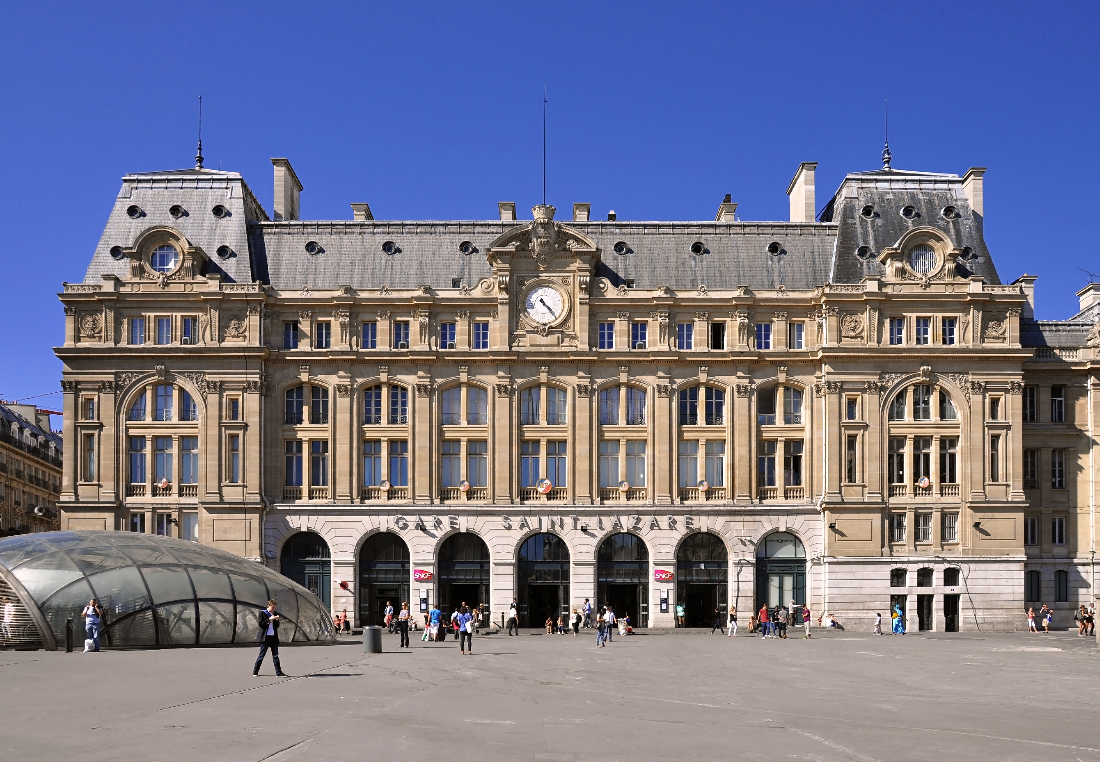 South facade of the Gare Saint-Lazare railway station in Paris 8th arrondissement, France.